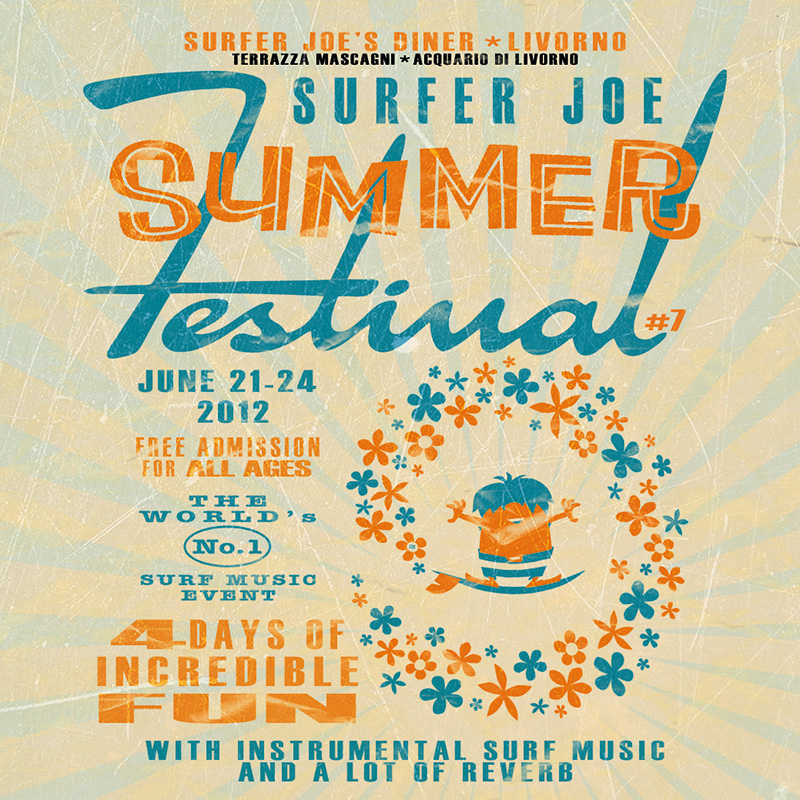 Poster of Surfer Joe Summer Festival 2012 by Fred Lammers and Anne Wendschuh